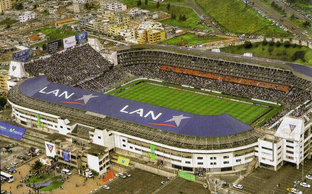 Vista aeria del estadio de Liga Deportiva Universitaria